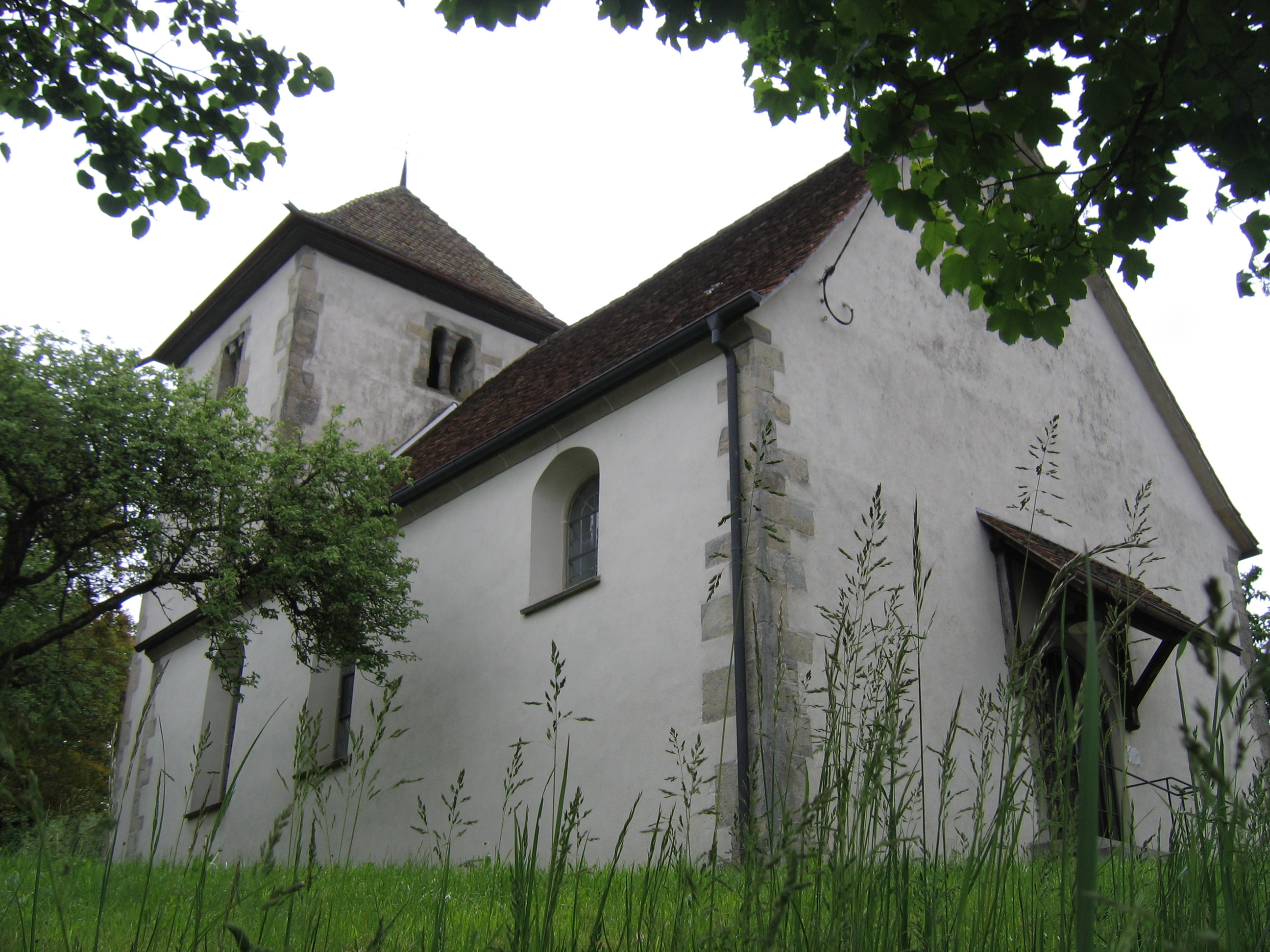 Germany - Baden-Württemberg - Bodenseekreis - Deggenhausertal - Wendlingen: chapel